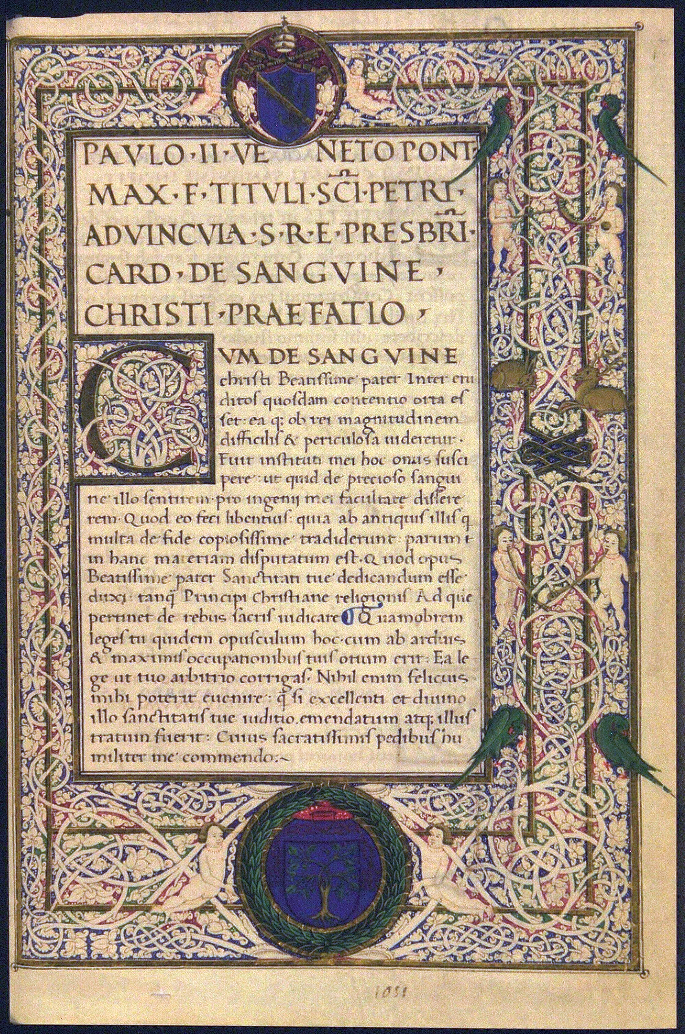 The preface of Cardinal Francesco della Rovere, who later became Pope Sixtus IV, to a manuscript of his works dedicated to Pope Paul II. Manuscript: Vatican City, Biblioteca Apostolica Vaticana, Vat. lat. 1051, fol. 1r.